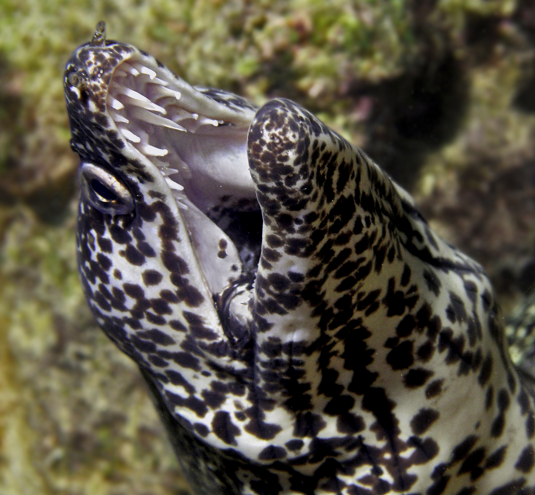 Spotted moray eels (Gymnothorax moringa) have rows of teeth on the roof of their mouth.